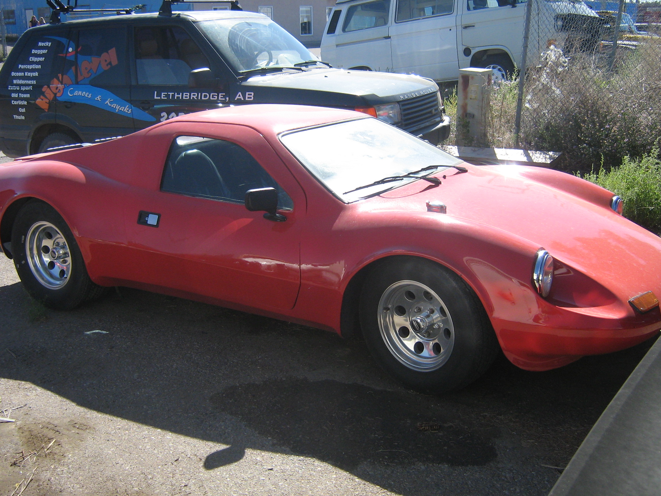 Kelmark GT - Ferrari sort of look a like kit car.